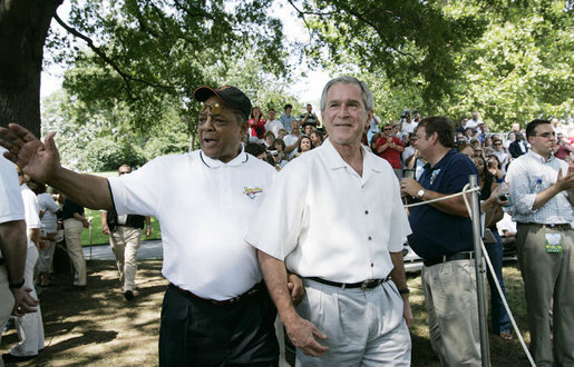 Baseball legend and hall of famer Willie Mays walks with President George W. Bush as he acknowledges a standing ovation from the crowd Sunday, July 30, 2006, upon their arrival for the Tee Ball on the South Lawn game between the Thurmont Little League Civitan Club of Frederick Challengers of Thurmont, Md., and the Shady Spring Little League Challenger Braves of Shady Spring, W. Va. Mays was the honorary Tee Ball Commissioner for the game. White House photo by Paul Morse